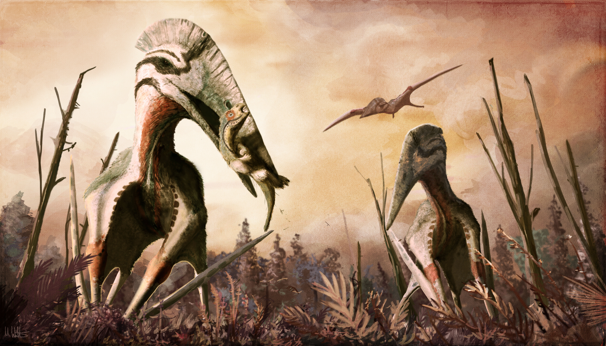 The Maastrichtian, Transylvanian giant azhdarchid pterosaur Hatzegopteryx sp. preys on the rhabdodontid iguanodontian Zalmoxes. Because large predatory theropods are unknown on Late Cretaceous Haţeg Island, giant azhdarchids may have played a key role as terrestrial predators in this community.